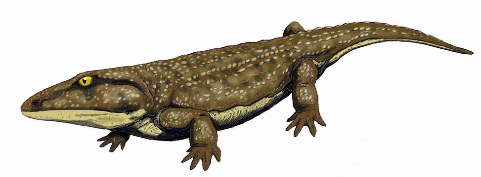 Acheloma cummingsi